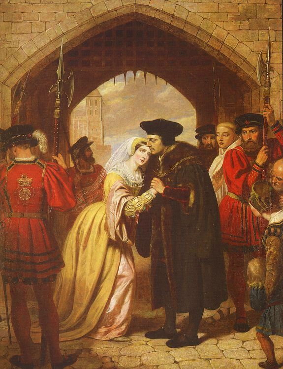 Thomas More bidding his daughter Margaret Roper farewell.